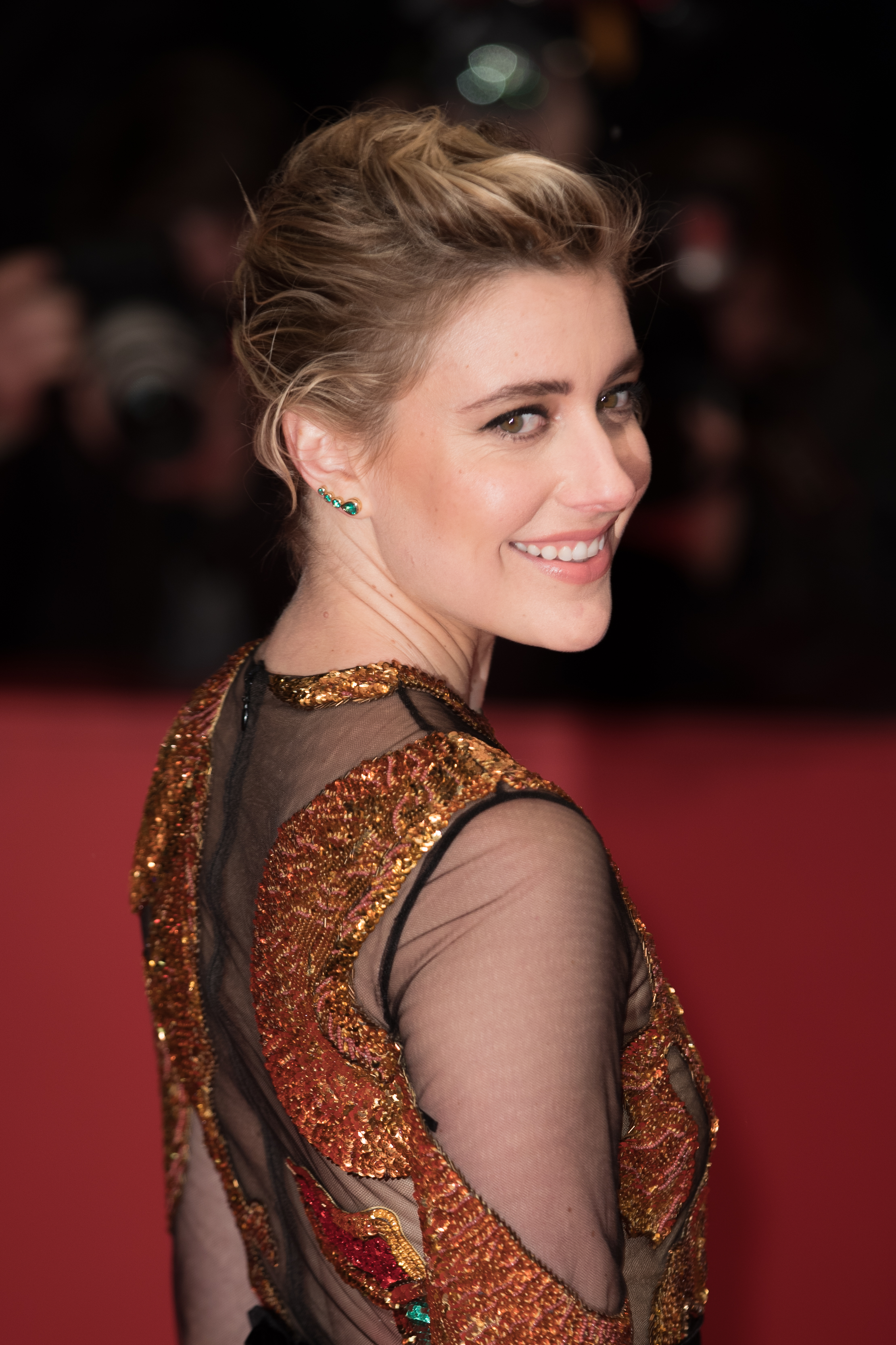 Greta Gerwig at the opening ceremenony of the Berlinale 2018